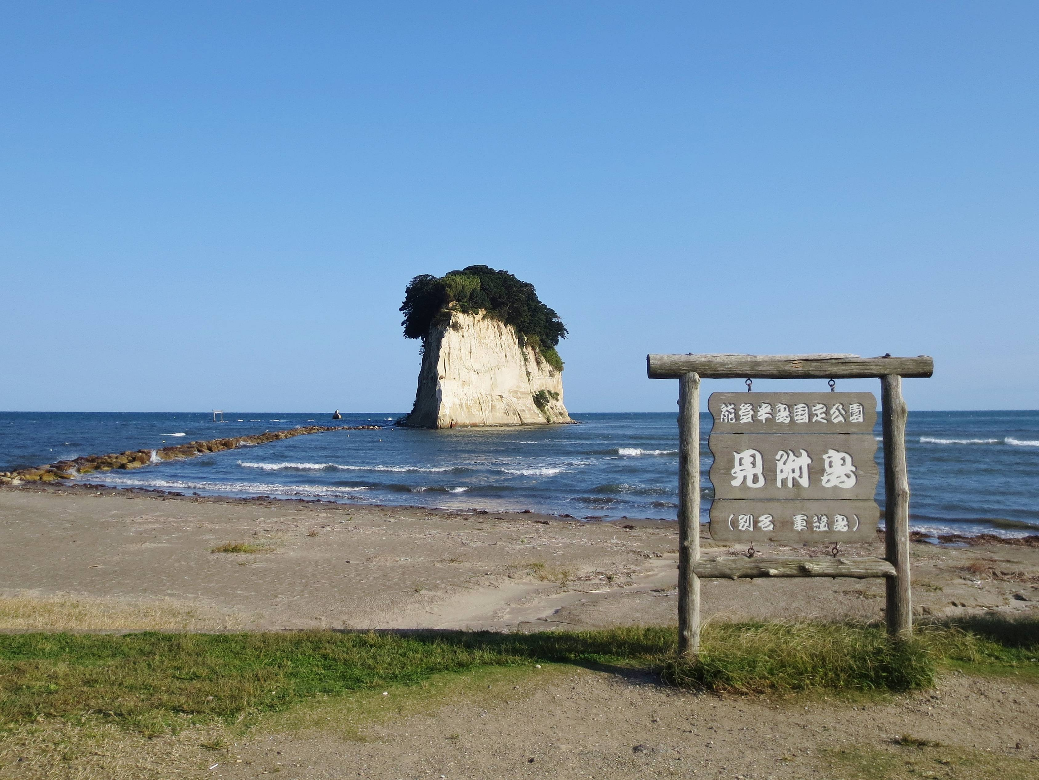 Mitsukejima.